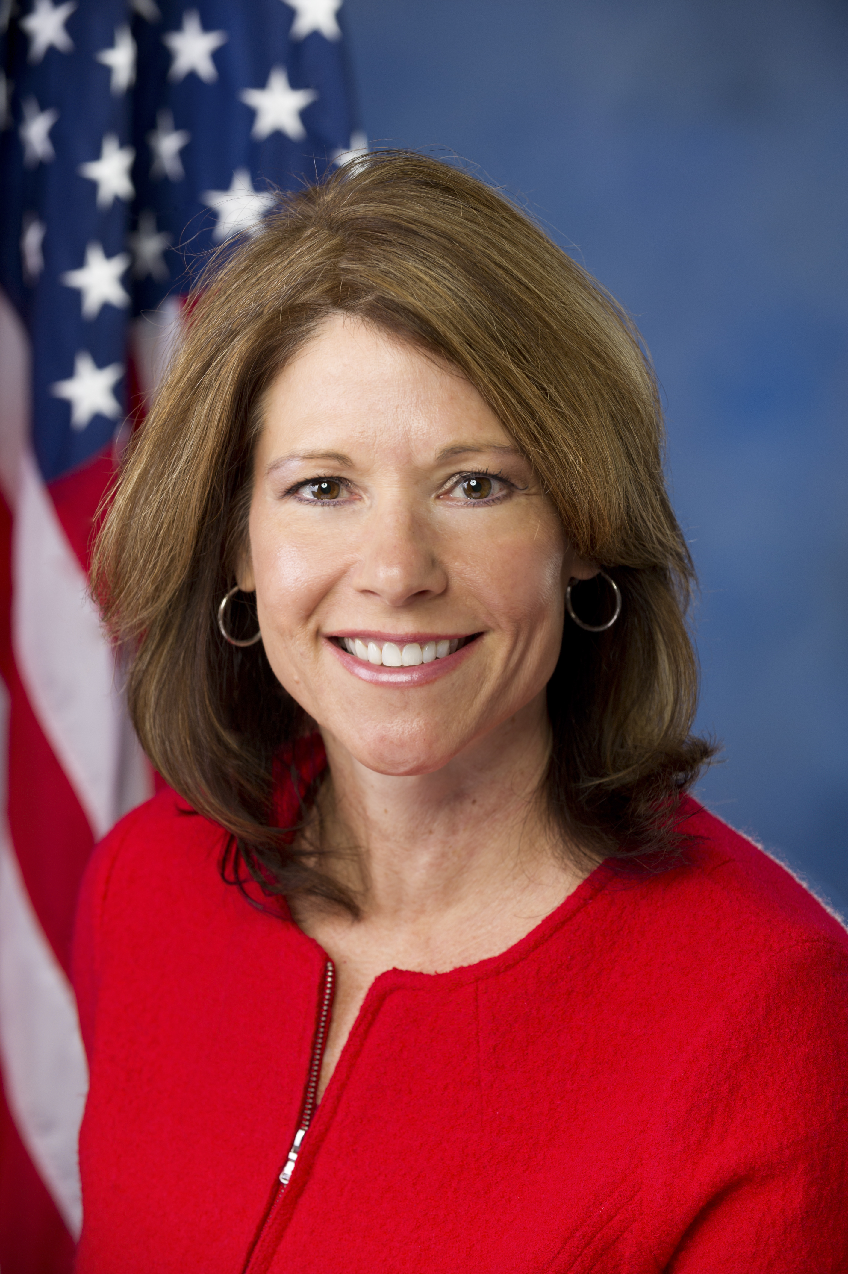 Representative Cheri Bustos